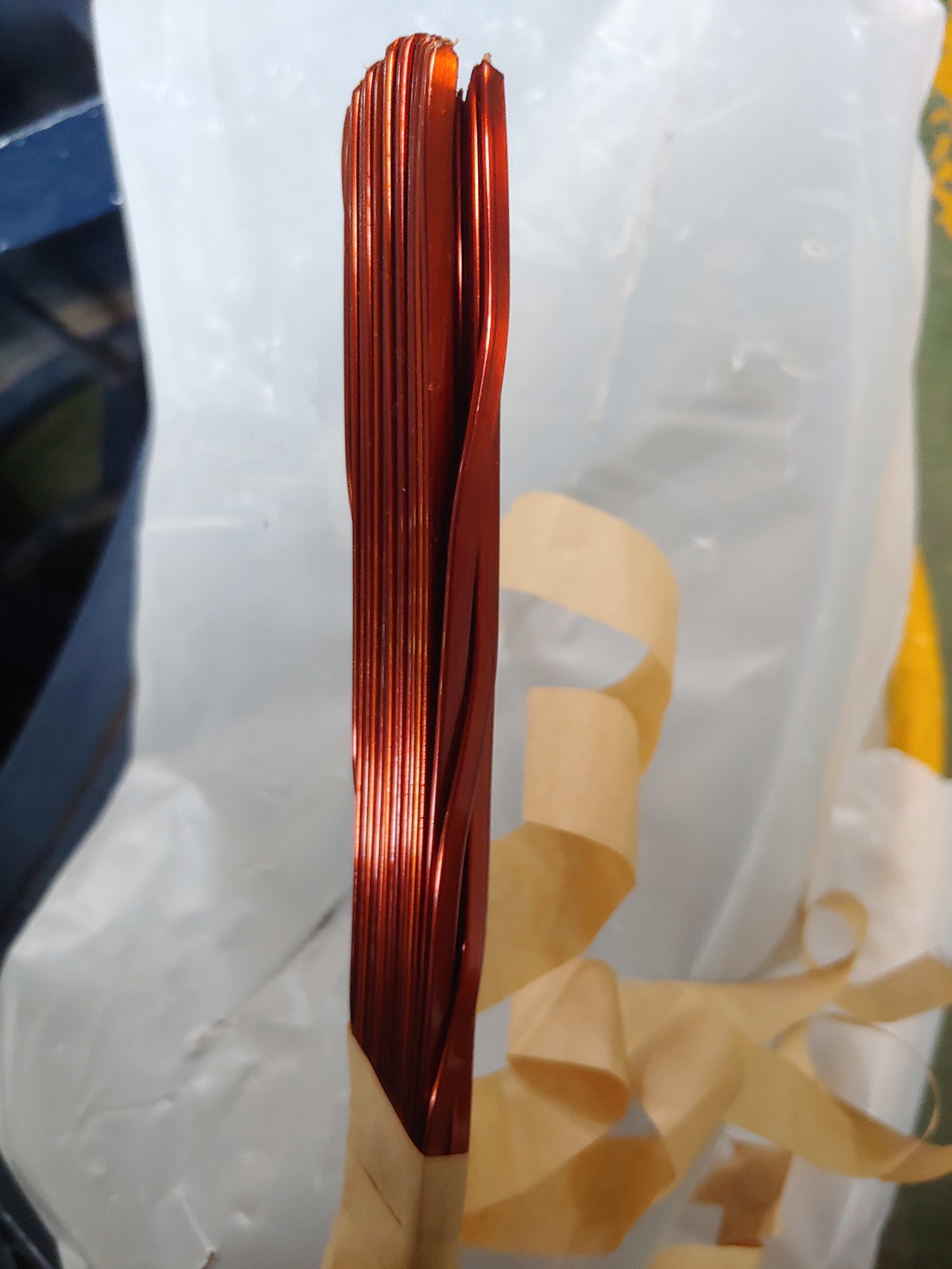 Continuously Transposed Conductor Cu (Copper CTC) for power transformer windings